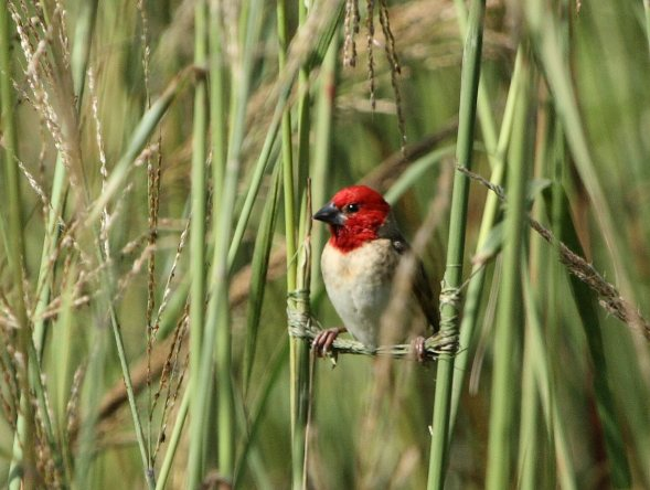 A Red-headed Quelea in wetlands southwest of Pietermaritzburn, South Africa. It has started to build a nest. Location: Small wetland at -29.731468,30.250699